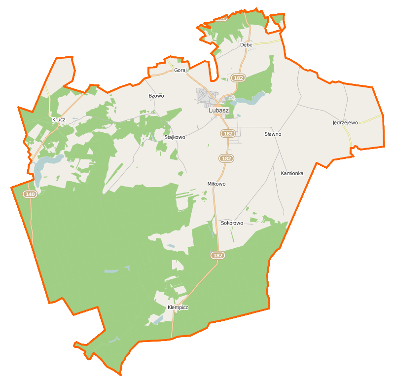 Map of Gmina Lubasz, Poland This map of Lubasz (gmina) was created from OpenStreetMap project data, collected by the community. This map may be incomplete, and may contain errors. Don't rely solely on it for navigation. Border coordinates52.895416.3713←↕→16.646052.7330